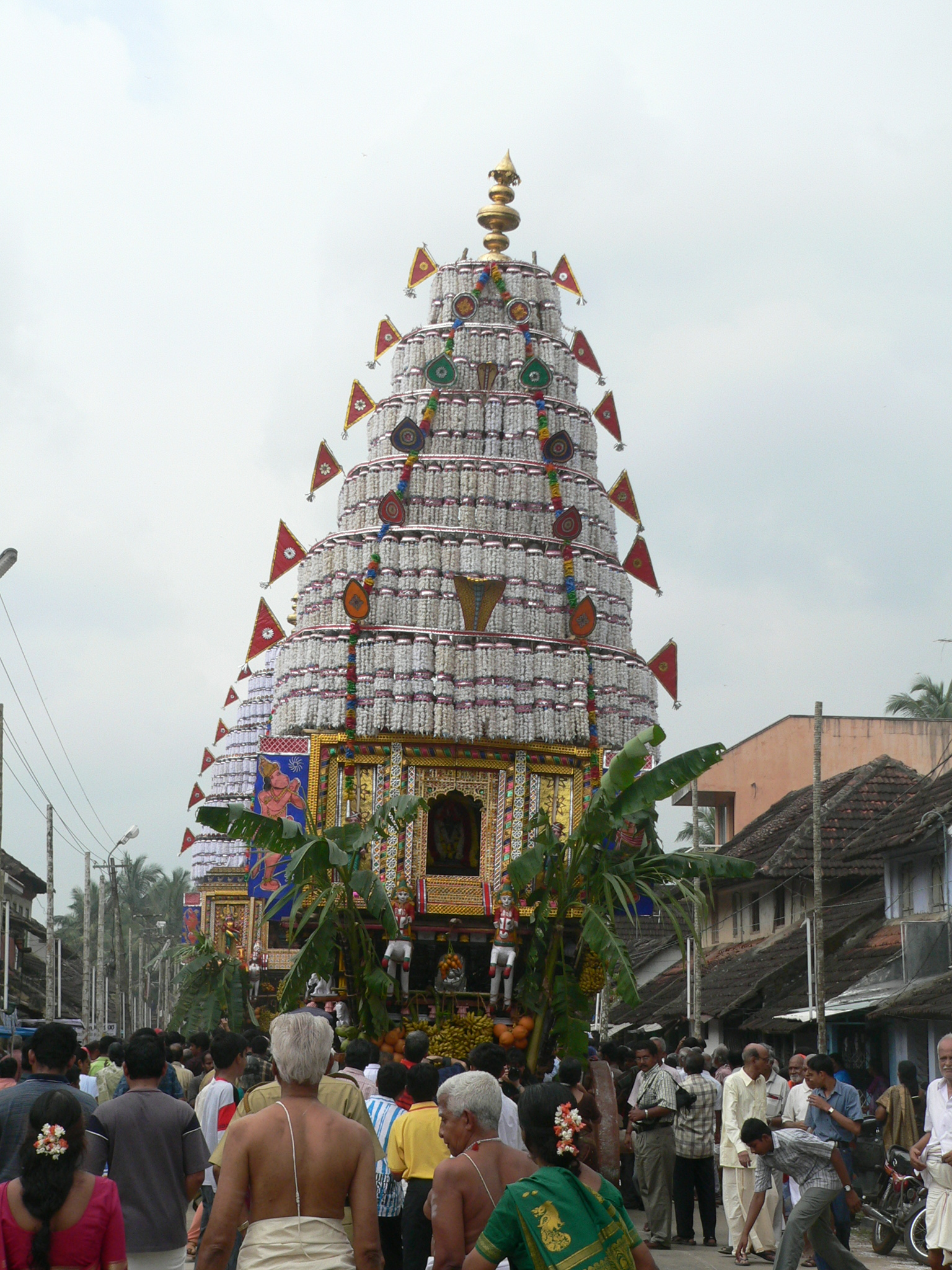 The decorated rath taken out in the street.